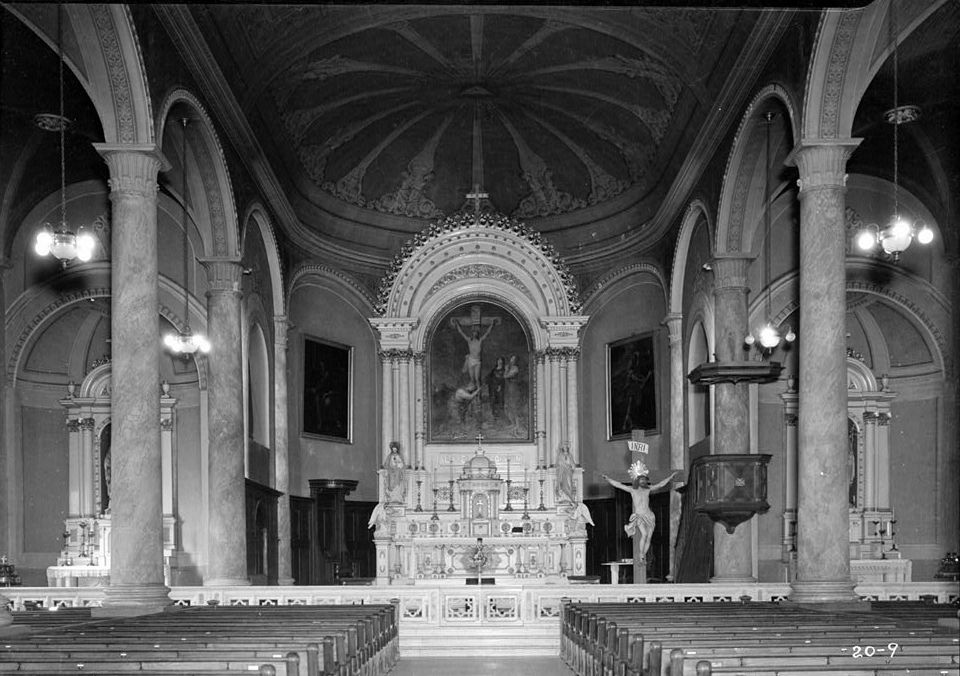 Basilica of Saint Joseph Proto-Cathedral in Bardstown, Kentucky. Interior toward chancel (looking north). Image cropt to remove border.